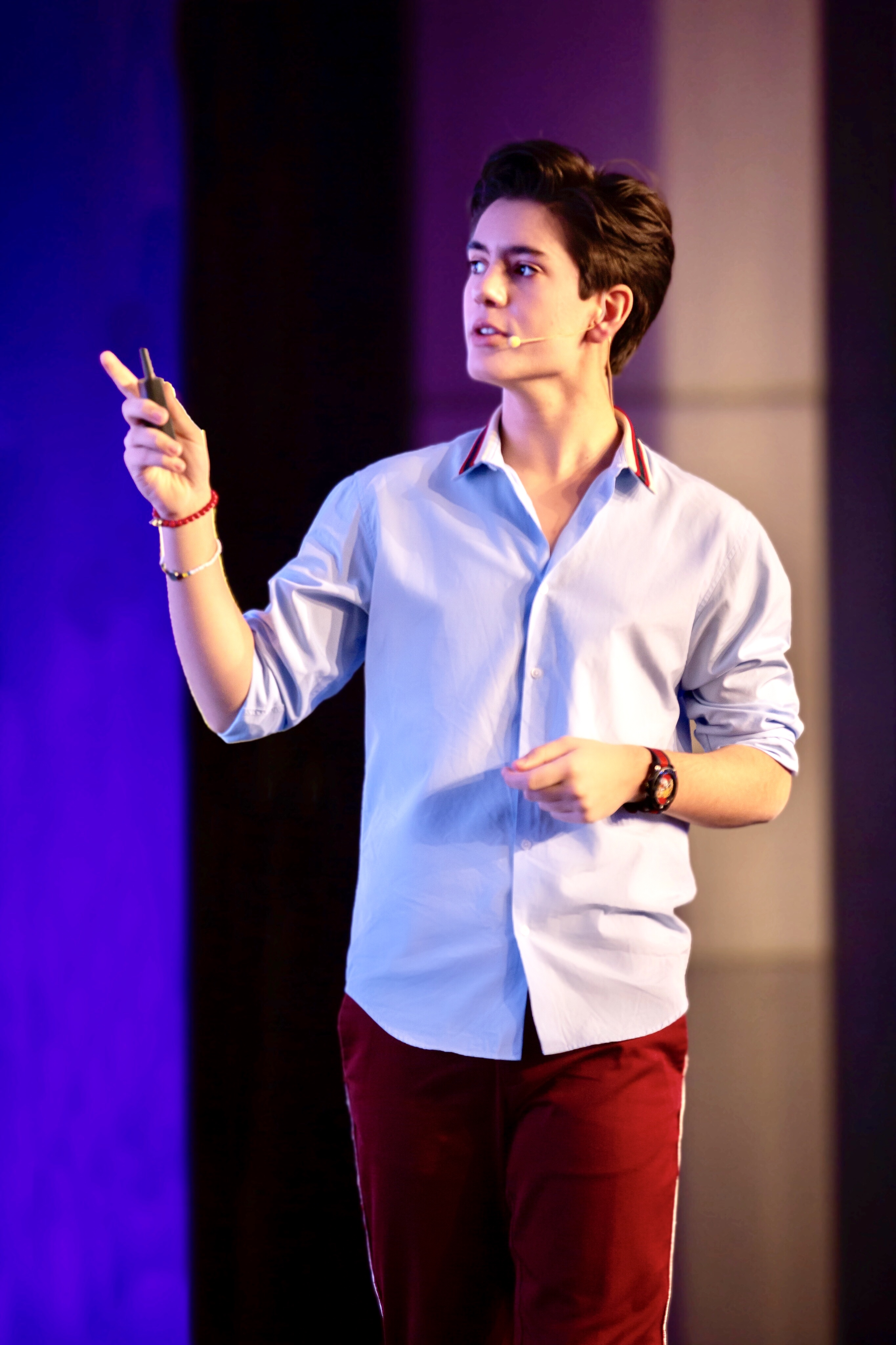 Jenk Oz, at the SME Beyond Borders Conference Dubai 2019